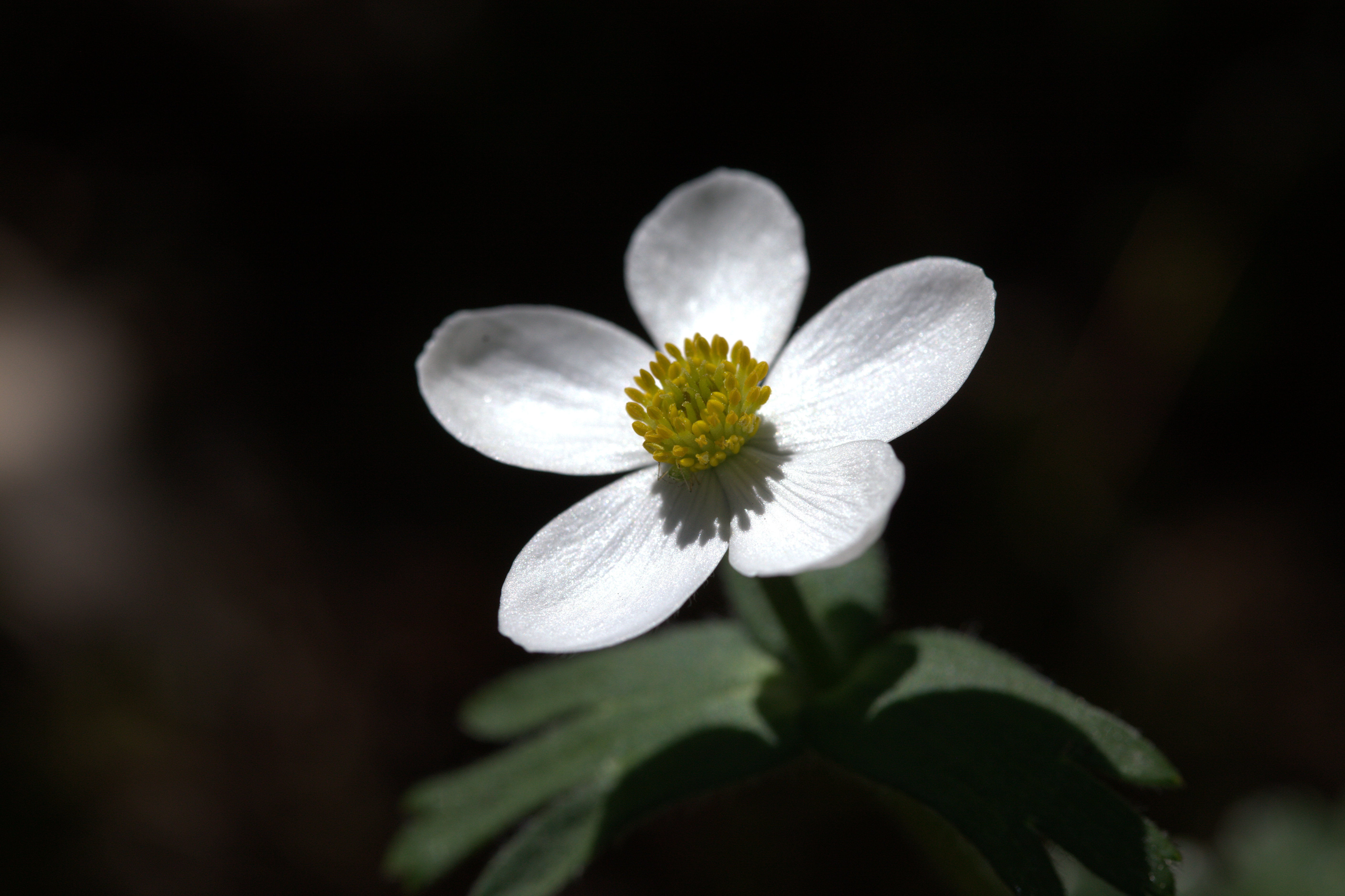 Photo taken at Gothenburg botanical garden. Specimen id: 1984-0300 s Z Seed collected in 1984 from known wild origin (GBT/Edinburg (SBEC 797))